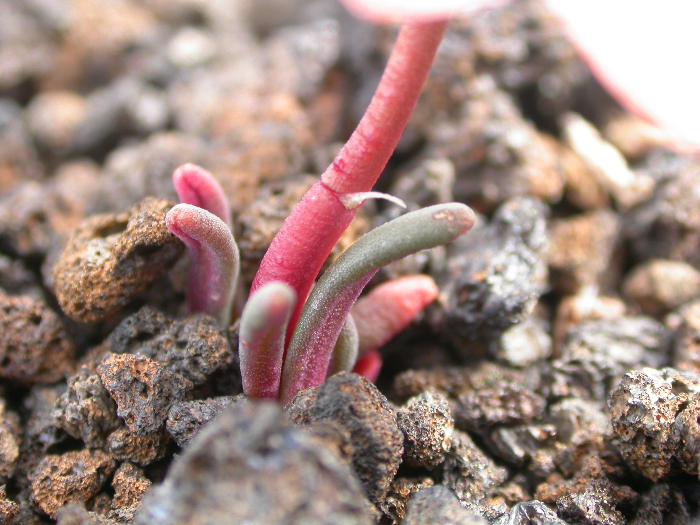 The leaves and stems are succulent.